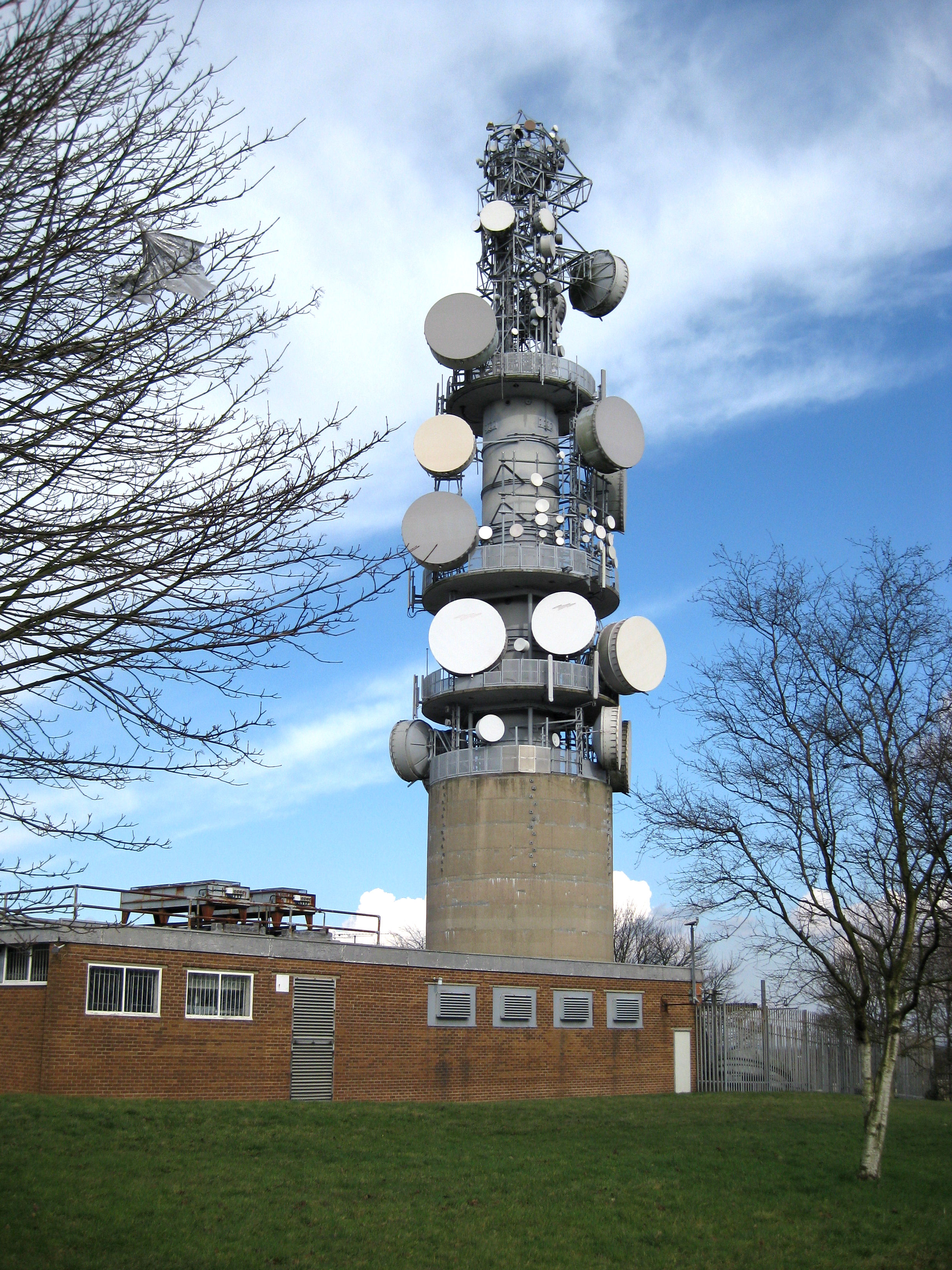 BT Telecommunications Tower off Otley Old Road, Tinshill, Leeds LS16 7BF.